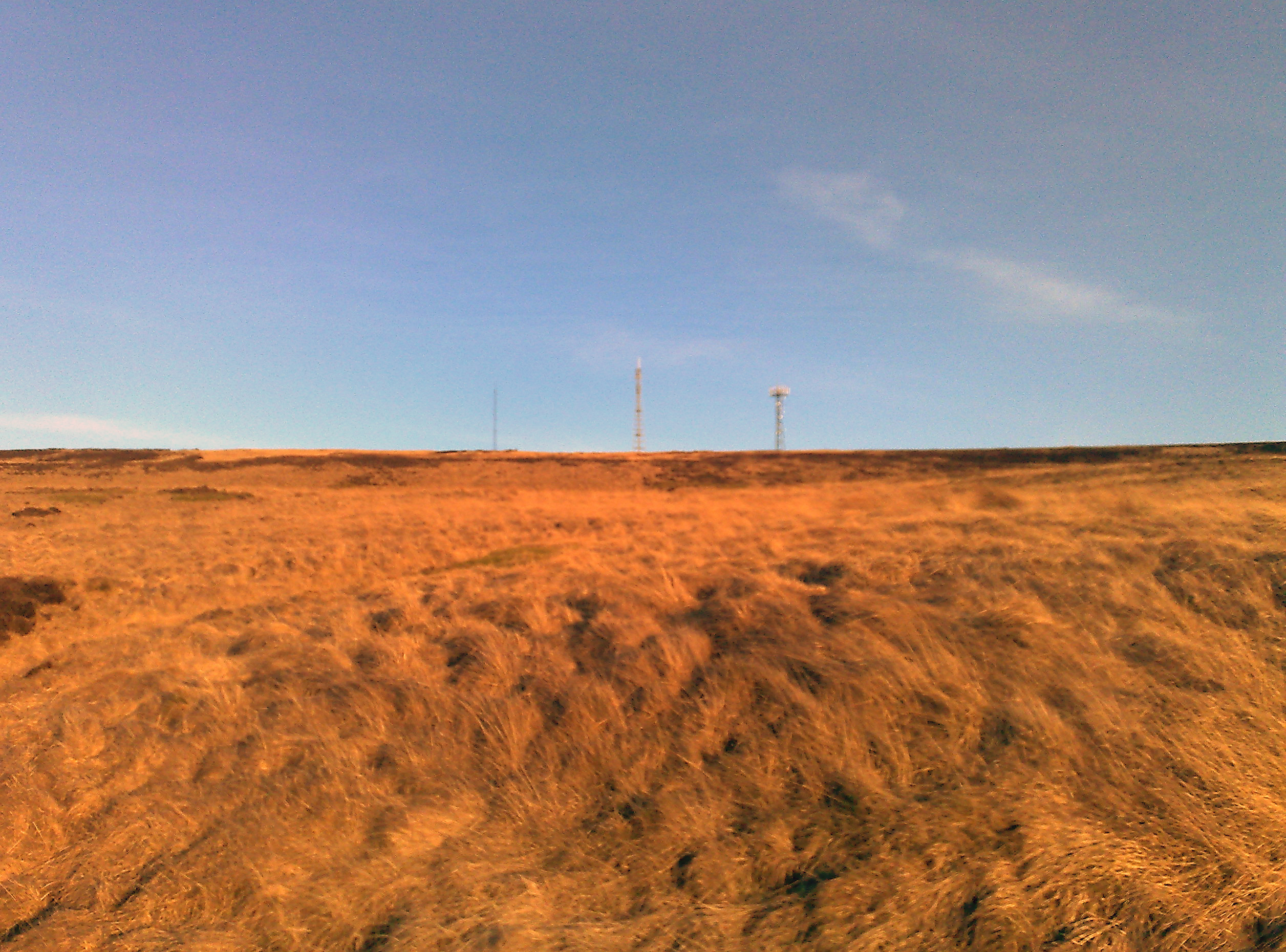 A view of Crompton Moor towards its summit at Crow Knowl, Shaw and Crompton, Greater Manchester, England.